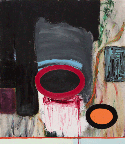 Photograph of a painting